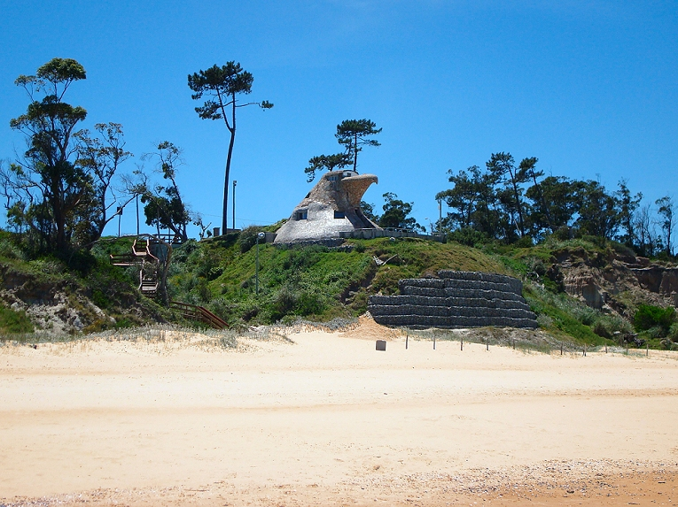 El Aguila in Atlántida, Canelones Department, Uruguay.